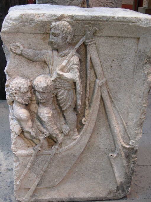 Stern-mounted steering oar of a Roman Rhine Boat, 1st century AD.